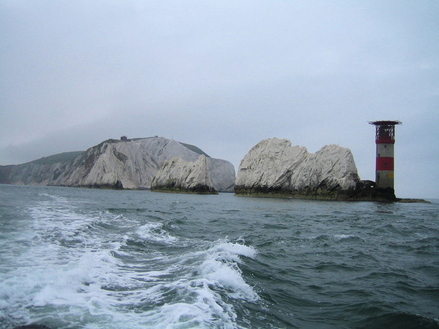 Goose Rock and The Needles